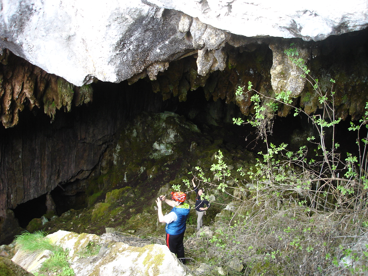 Bozgunova cave, near Patiška Reka, Macedonia